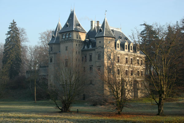 Gołuchów Castle